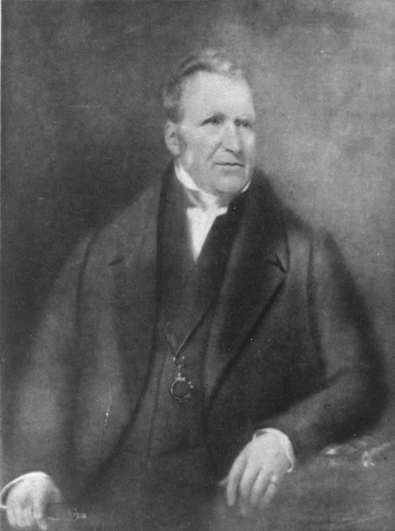 Portrait of William Pearson (1767-1847), one of the founders of the Royal Astronomical Society.